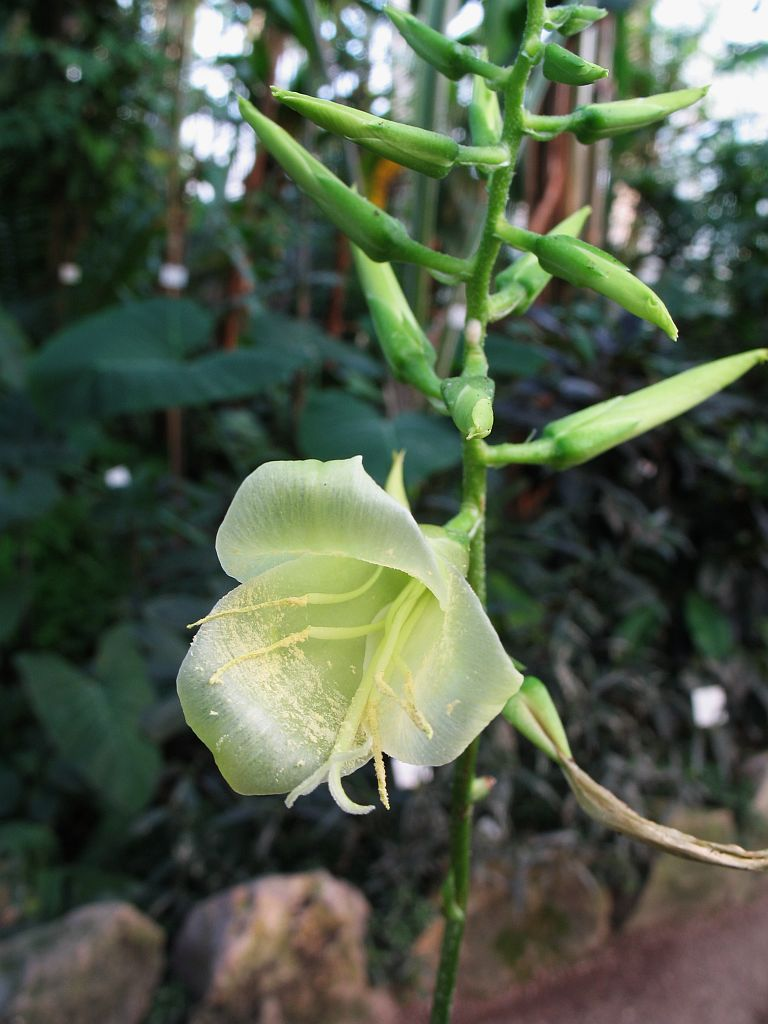 Pitcairnia loki-schmidtiae type plant in cultivation at the Botanical Garden of Heidelberg, Germany.